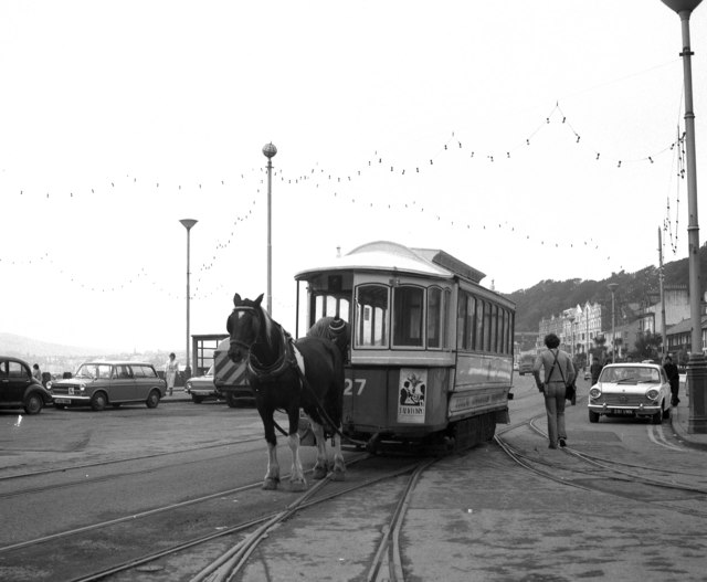 Derby Castle horse tram terminus Enclosed horse car No 27 has just arrived. The enclosed horse cars are only used when the weather is cold, wet or windy. Car No 27 is one of a batch of three, all of which still exist, built by G F Milnes of Birkenhead in 1892, to a very high standard for that time.